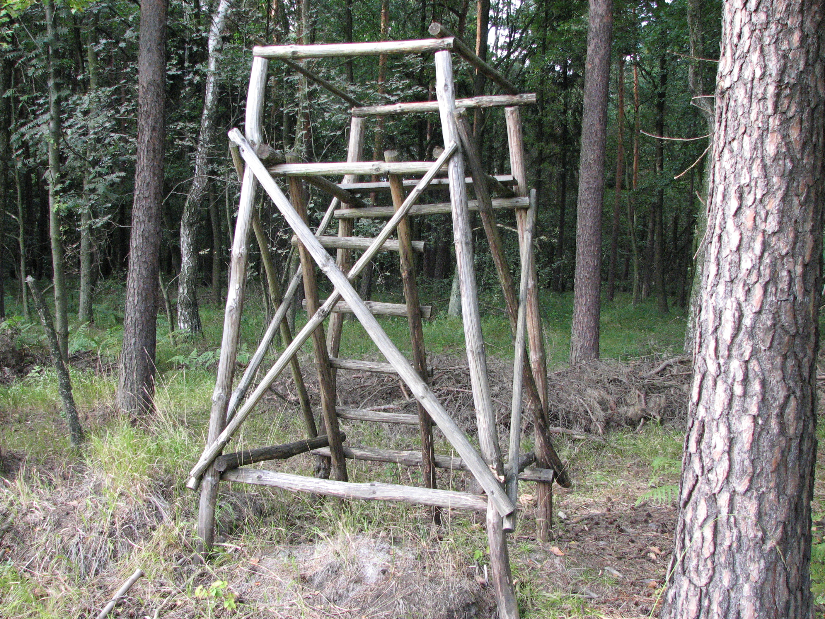 Panewniki's Forests in Katowice, Poland